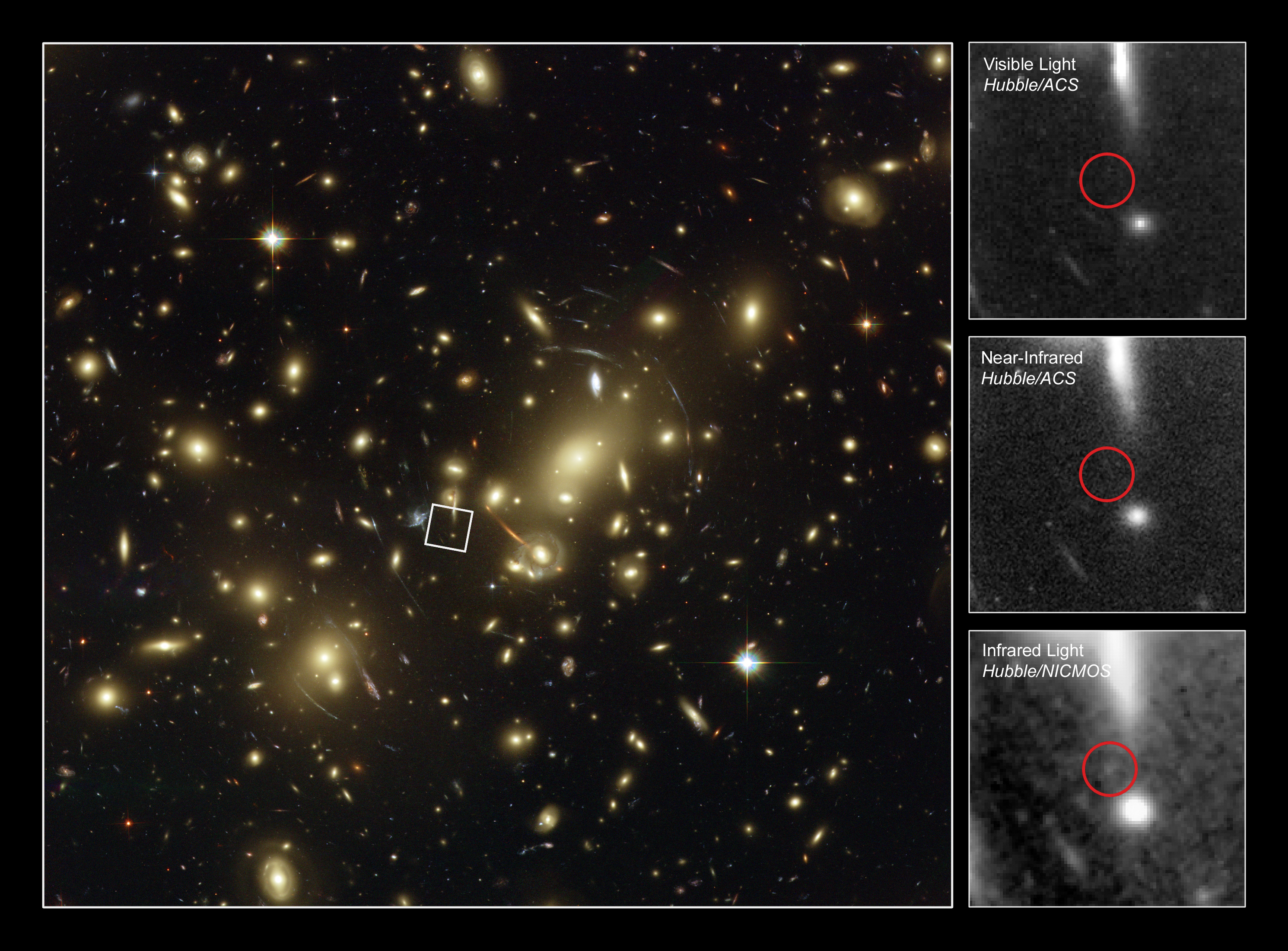 The central picture shows Abell 2218, a rich galaxy cluster composed of thousands of individual galaxies. It sits about 2.1 billion light-years from the Earth (redshift 0.17) in the northern constellation of Draco. When used by astronomers as a powerful gravitational lens to magnify distant galaxies, the cluster allows them to peer far into the Universe. However, it not only magnifies the images of hidden galaxies, but also distorts them into long, thin arcs. Several arcs in the image can be studied in detail thanks to Hubble's sharp vision. Multiple distorted images of the same galaxies can be identified by comparing the shape of the galaxies and their colour. In addition to the giant arcs, many smaller arclets have been identified. The pictures along the right edge show one of the galaxies viewed at approximately redshift 7.5 with the help of the gravitational lens. The galaxy cannot be seen in the top image, which was taken in the visual range by ACS. In the middle image, taken in the near-infrared by ACS, the galaxy becomes barely visible in the circled region. The galaxy finally becomes fully visible in the bottom image, which is taken by NICMOS in the infrared. The galaxy is visible in the near-infrared region of the electromagnetic spectrum rather than the visible part because during the 13 billion years the light spent travelling to Earth, the Universe has expanded enough to broaden the wavelength from the visible into the near-infrared.